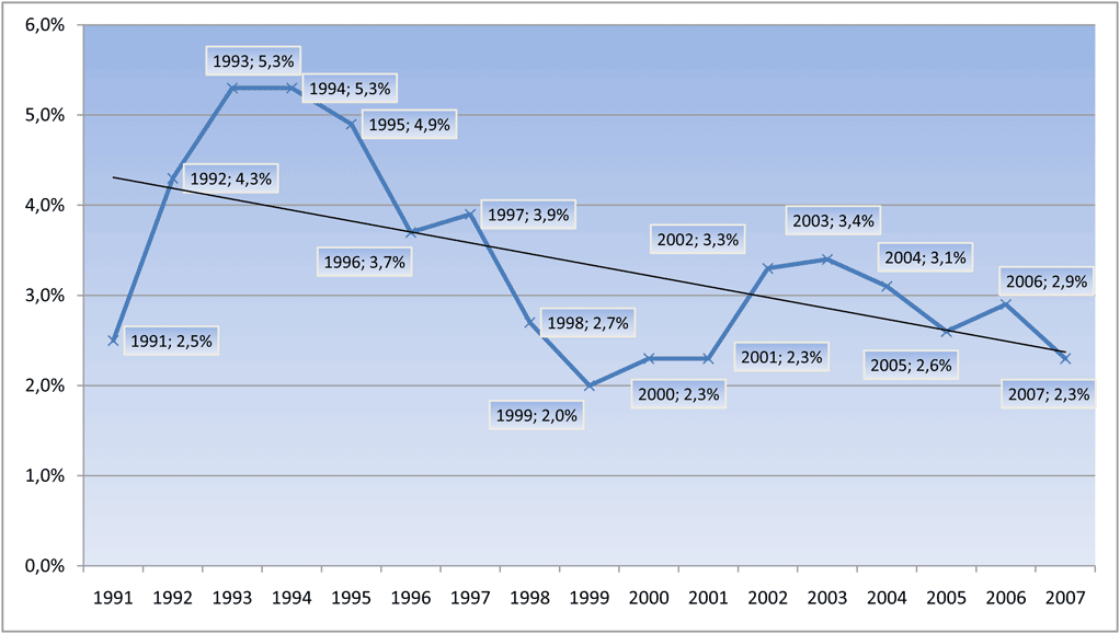 Level of unemployment between 1991 and 2007 in Iceland measured in percentages. Source: Statistics Office of Iceland (